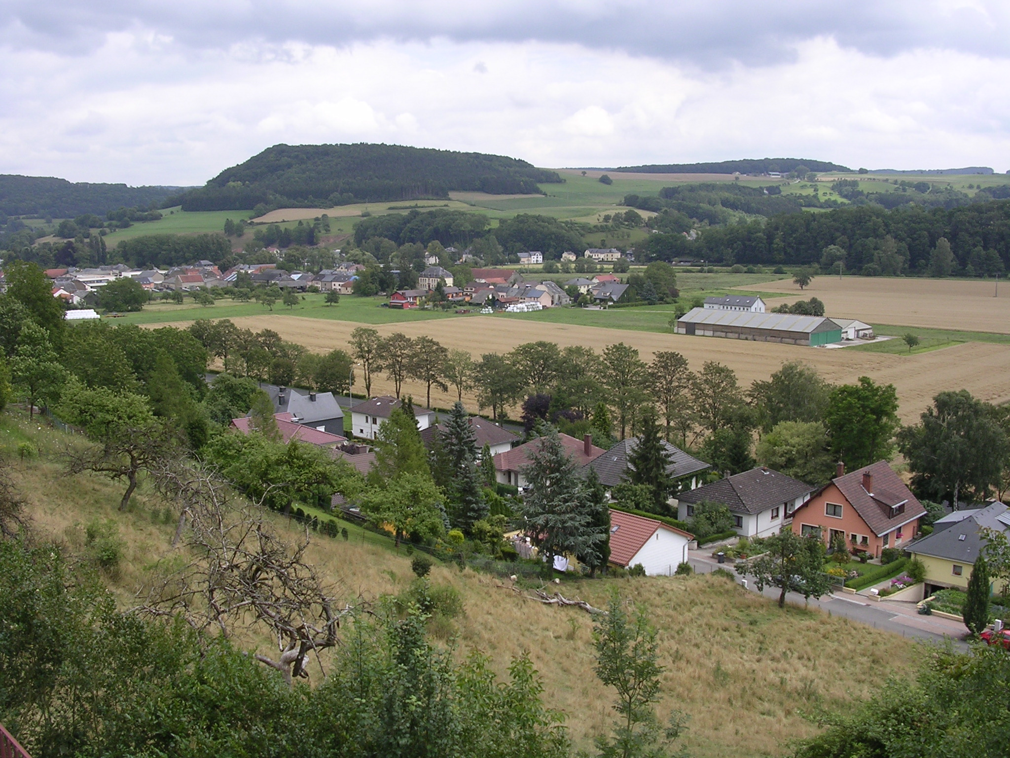 View on Bettendorf, Luxembourg